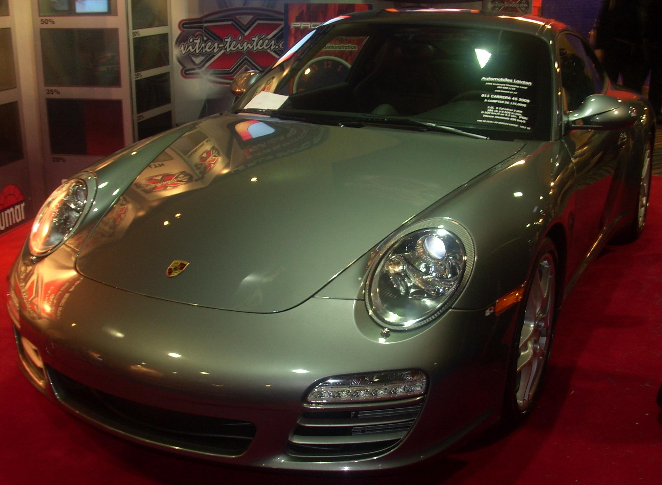 2010 Porsche 911 photographed at the 2009 Montreal International Auto Show.